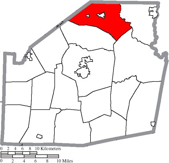 Map of the municipal and township boundaries of Highland County, Ohio, United States, as of the 2000 census, with the location of Fairfield Township highlighted. Township borders are shown only in unincorporated areas in order to differentiate incorporated and unincorporated areas more clearly.